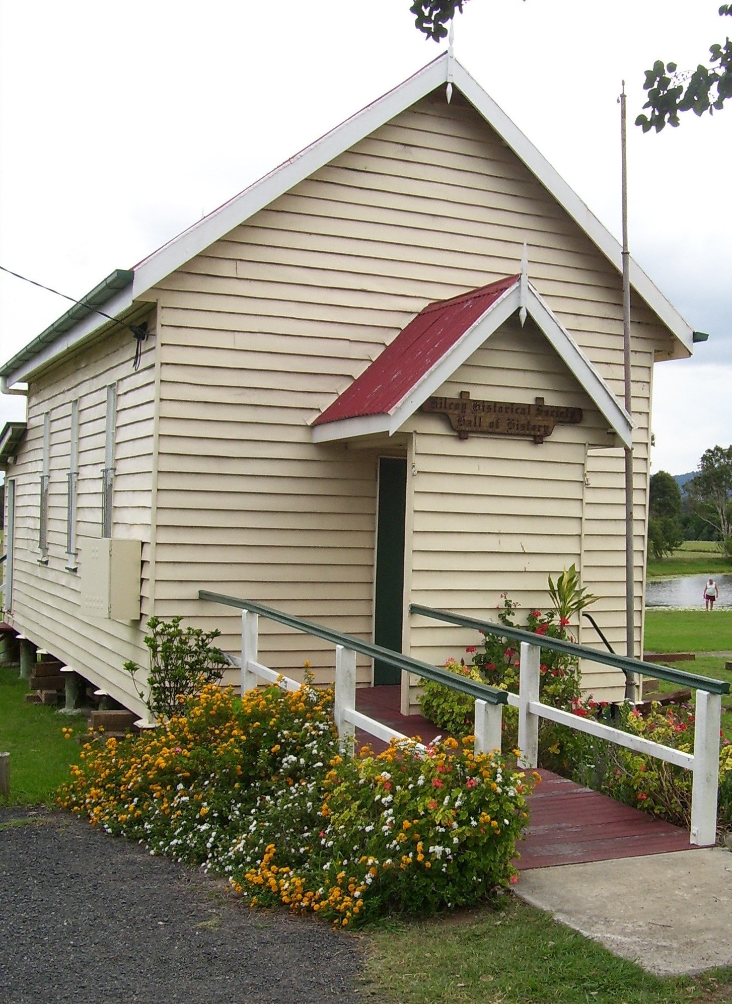 The building that is now the Hall of History was formerly the Anglican Church based at Hazeldean, 15 kms south of Kilcoy near Lake Somerset. It was relocated to Yowie Park before it deteriorated beyond repair.